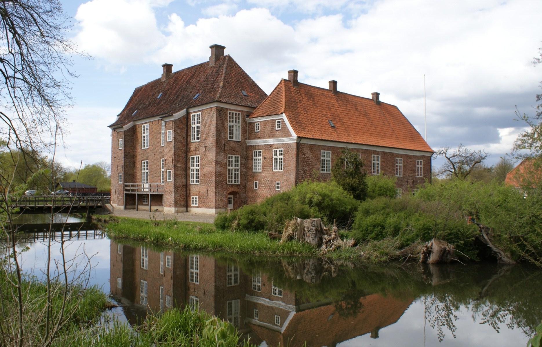 Gram Castle